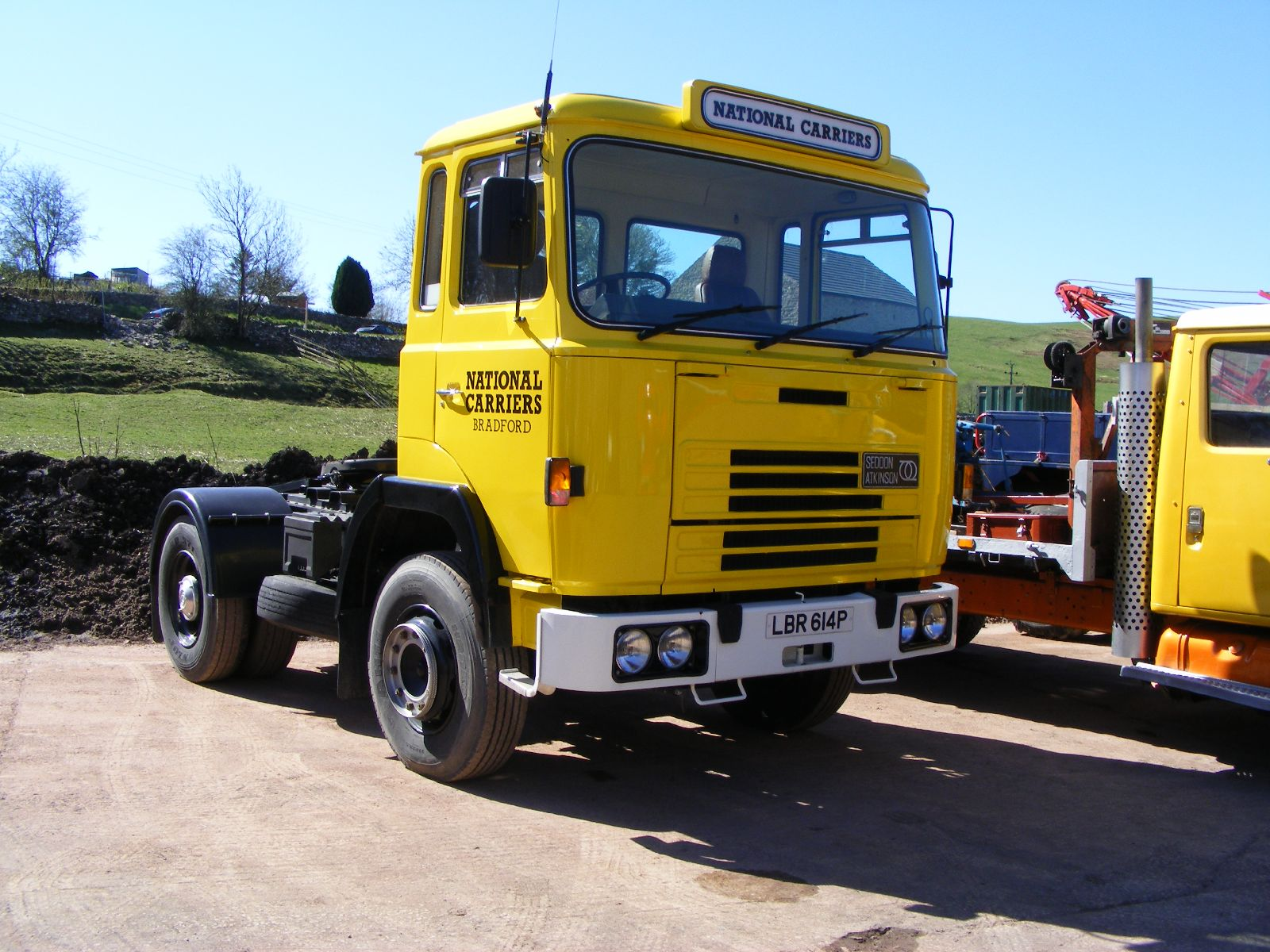 Seddon Atkinson 400 at the 2009 Kirkby Stephen commercial vehicle rally. "250cc" engine according to the DVLA; I interpret that as being a Cummins NTE250 motor.